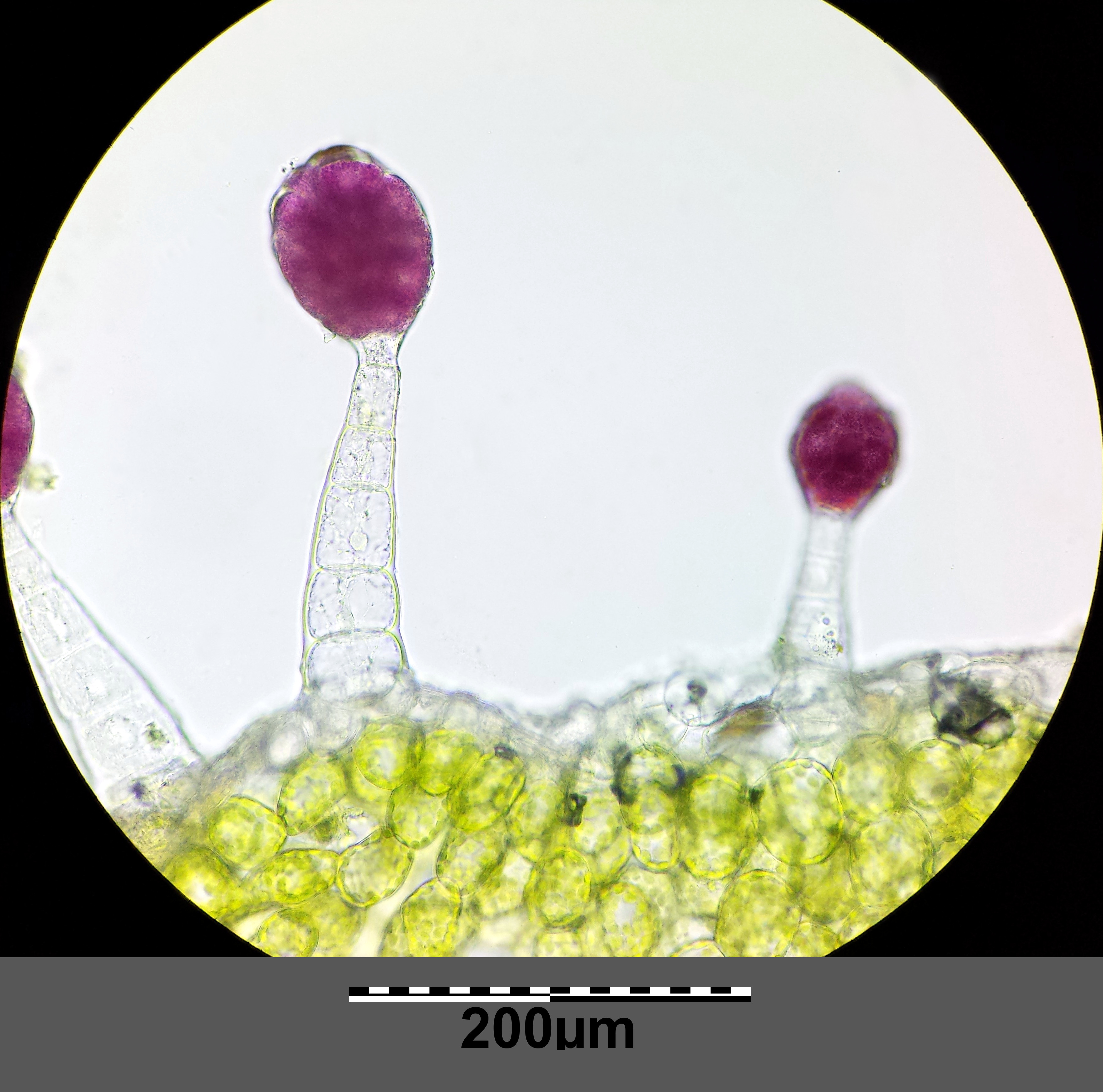 Glandular hairs of leaf Taxonym: Saxifraga tridactylites ss Fischer et al. EfÖLS 2008 ISBN 978-3-85474-187-9 Location: Neue Donau, Vienna-Floridsdorf - ca. 160 m a.s.l. Habitat: dry slope